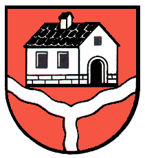 Coat of arms of Hausen_an_der_Fils unter Rechberg in Bad Überkingen